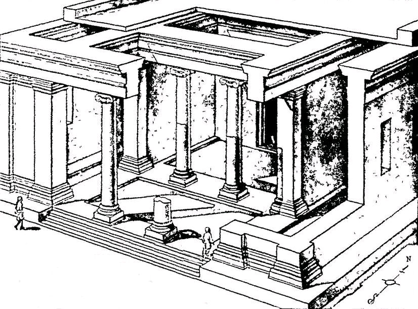 Jandial Temple reconstitution